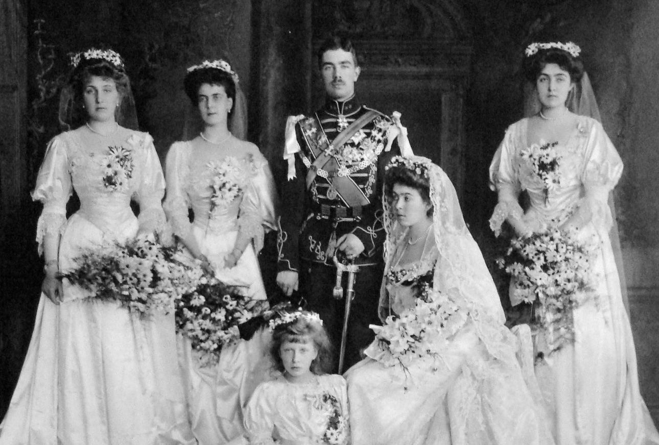 Group portrait taken on the occasion of the marriage of Princess Margaret of Connaught (1882-1920) to Gustaf Adolph Crown Prince of Sweden (1882-1973), later Gustaf VI Adolf, King of Sweden. The marriage took place on 15 June 1905, at St George's Chapel, Windsor Castle. From left to right are: Queen Ena of Spain, The Infanta Beatriz of Spain, Princess Mary, Crown Prince of Sweden, Princess Margaret and Princess Patricia of Connaught.